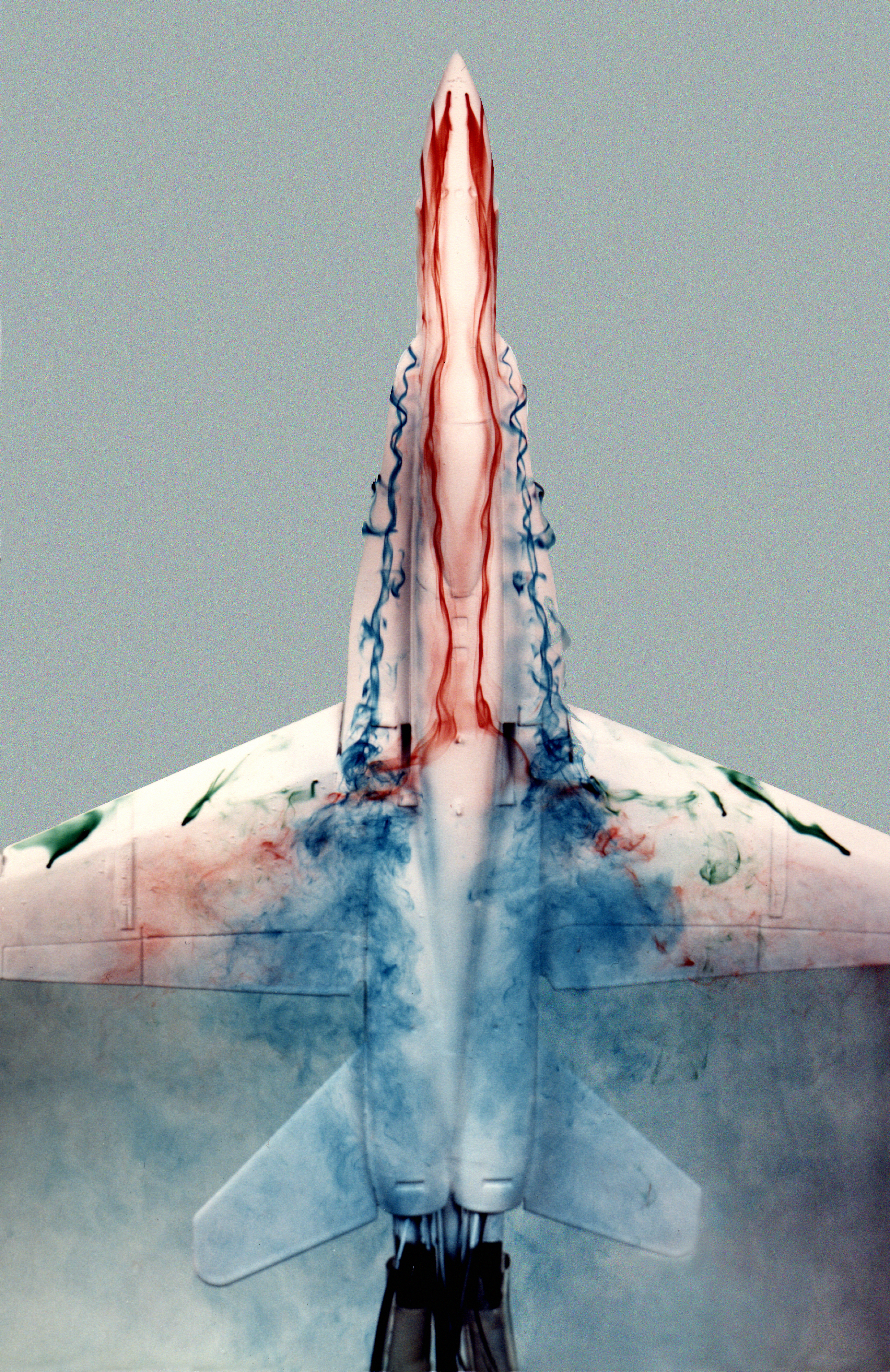 Flow visualization over a 1/48-scale model of an F-18 aircraft inside a water tunnel at the Flow Visualization Facility from NASA's Dryden Flight Research Center. Water flows over the aircraft model, and colored dyes, which are pumped through tubes with needle valves, flow back along the airframe. This photo highlights the appearance of vortices over the leading-edge extensions, as well as vortex burst further downstream, both typical of operations at high angle of attack.